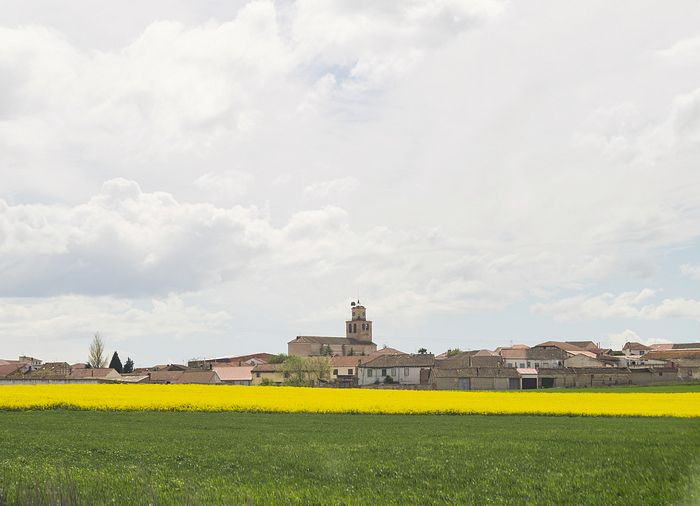 Vista del pueblo